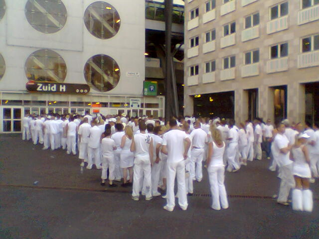 Sensation White 2006